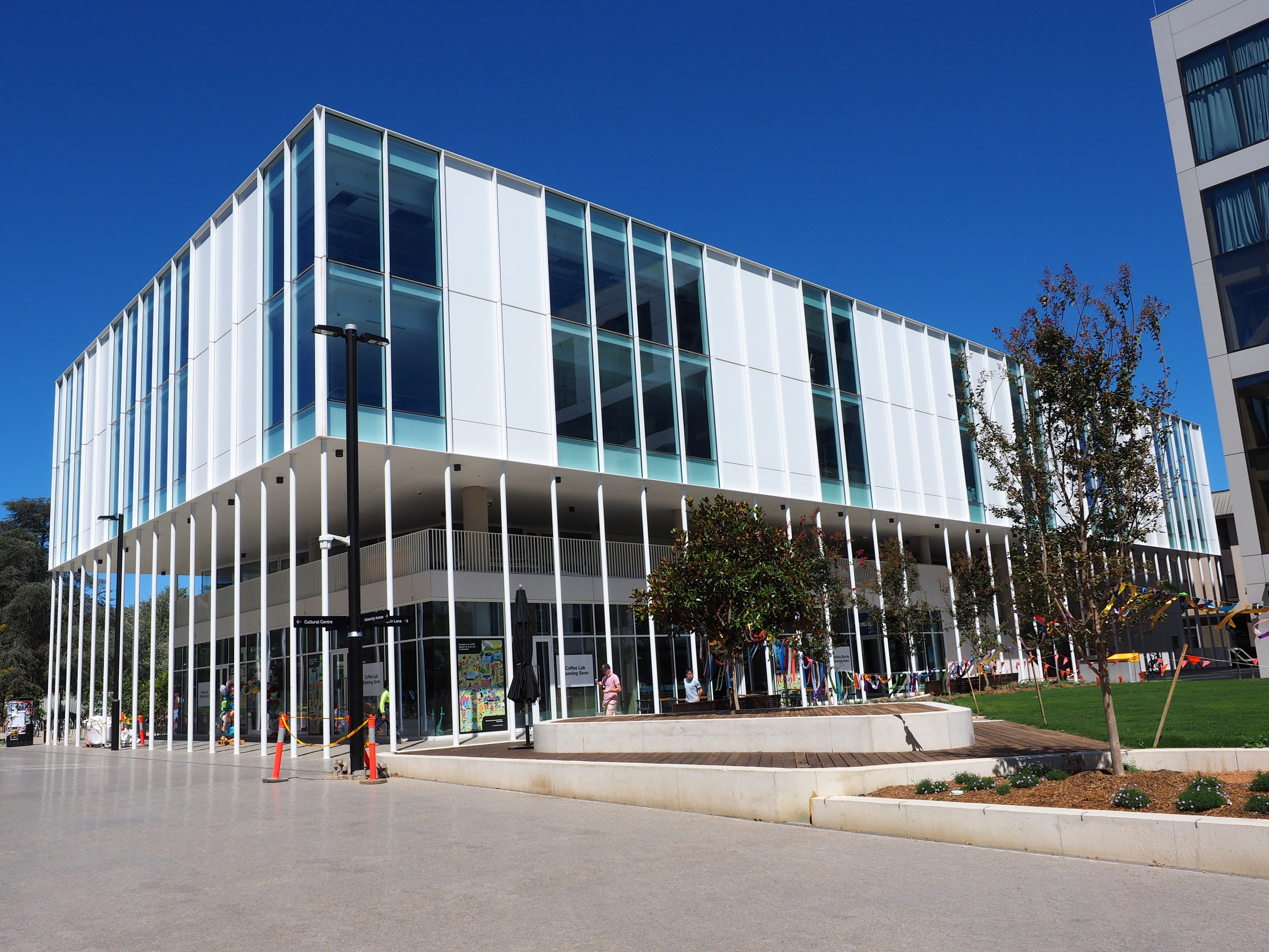 The Di Riddell Student Centre at the ANU